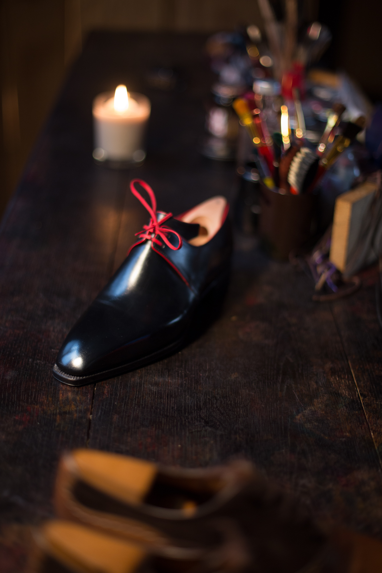 Picture of the Maison Corthay iconic model, the Arca